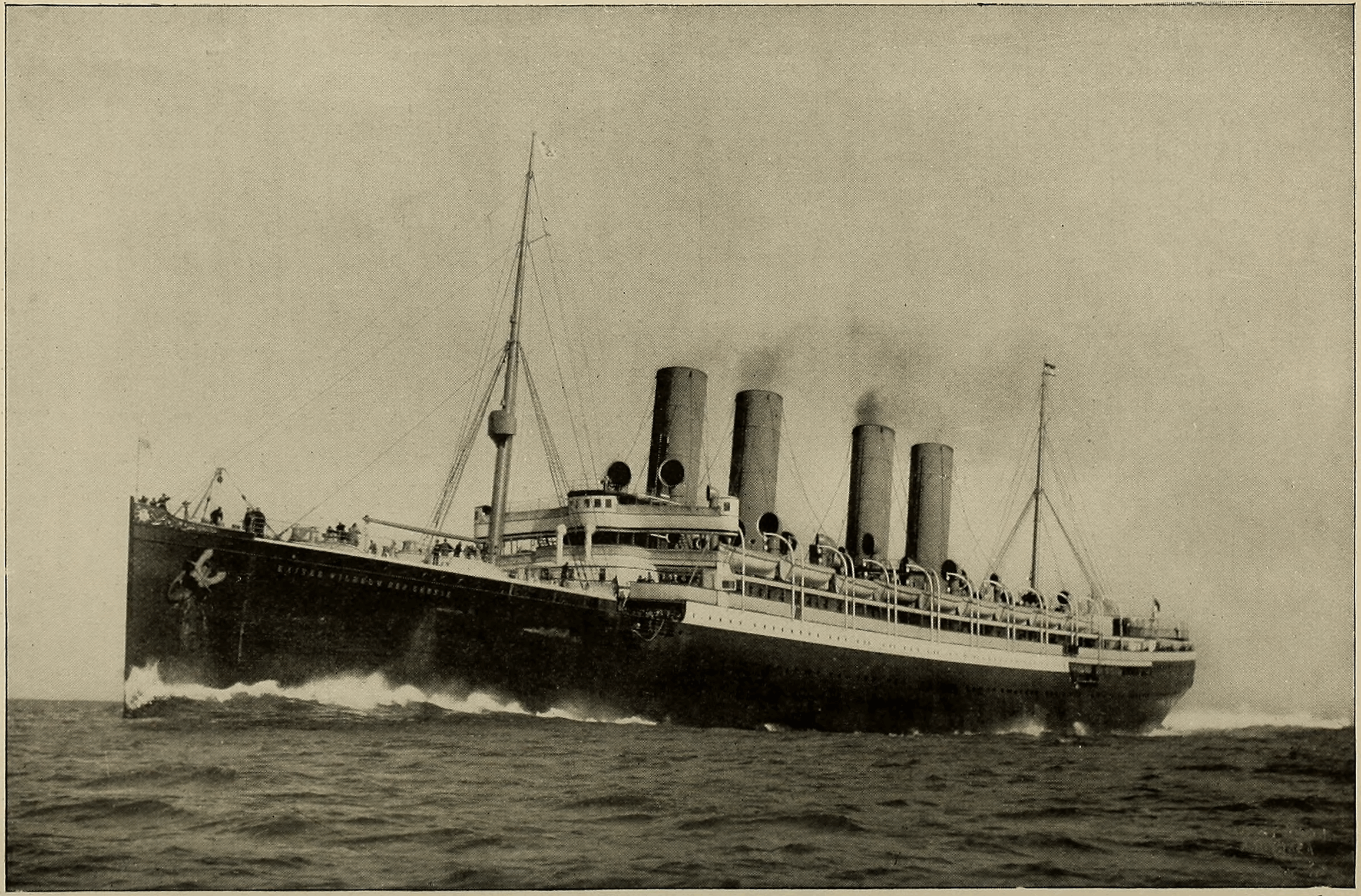 Cassier's Magazine of January 1898 had an article on page 187-203, describing the German liner Kaiser Wilhelm der Grosse and titled The Largest Steamship Afloat. It was accompanied by a number of illustrations, including this photo of the vessel, on page 188.